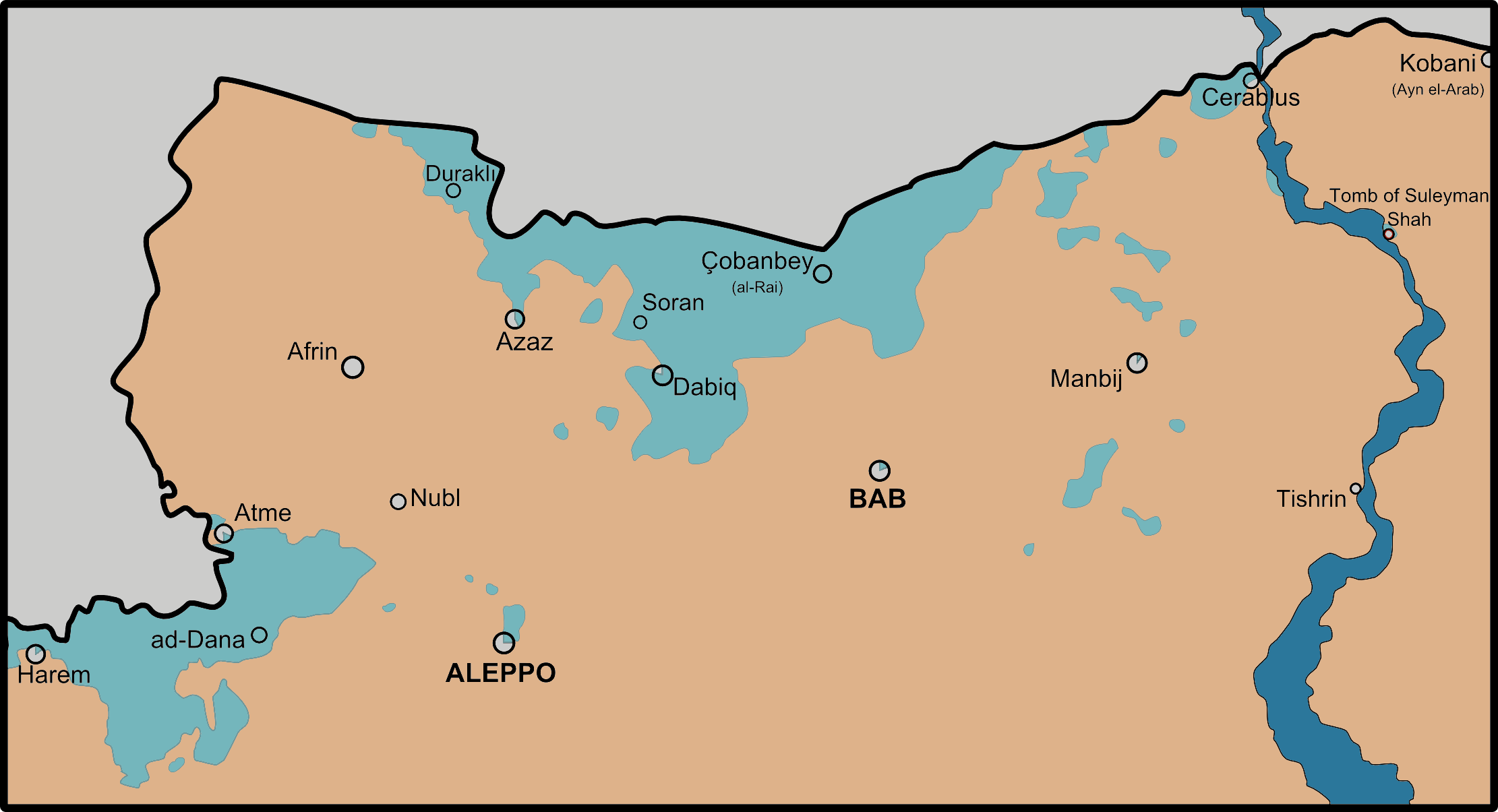 Map showing the areas where Turkmens make up the majority in North of Aleppo, Syria. (Areas where Turkmens are a minority, -substantial or not-, are not shown on the map except cities where Turkmens constitute a part of city population) Work on majority areas is a combination of resources; Columbia University, Michael Izady 1, Michael Izady 2, Jersualem Post, Washington Institute (ISSN 0949–1856): Presseausschnitte zu Politik, Wirtschaft und Gesellschaft in Nordafrika und dem Nahen und Mittleren Osten. Autors: Deutsches Orient–Institut; Deutsches Übersee–Institut. Hamburg: Deutsches Orient–Institut, 1996, seite 33., Fabrice Balanche Les Alaouites, l’espace et le pouvoir dans la r´egion cˆoti`ere syrienne : une int´egration nationale ambigu¨e. G´eographie. Universit´e Fran¸cois Rabelais - Tours, 2000. Fran¸cais. Syria and the Middle East Peace Process, Alasdair Drysdale; Raymond A. Hinnebusch; pg. 222, (ISBN 0876091052) Nicholas A. Heras; Syrian Turkmen Join Opposition Forces in Pursuit of a New Syrian Identity, Terrorism Monitor, 11. SOITM World Population Review - Syrian Turkmen / 2013, BBC, Commins 2004, 268 Ahmet Emin Dağ, 2015, From Umayyads to the Arab Spring: Turkmens of Aleppo, ISBN: 9786056562853. Mehmet Şandır, “Suriye Türklüğü” (Syrian Turks), Türk Yurdu, Cilt 18, Sayı 133 (1998), s. 7-8. Işıl Bostancı, Halep Türkmenleri (Boy ve Oymak) (Turkmens of Aleppo), Fırat University, Elazığ, 1998 ORSAM Report No: 14 ORSAM Report No: 150, ORSAM Report No: 83 The Turkmen Reality in Syria [ Arguments on Safe Haven in Syria: Risks, Opportunities and Scenarios for Turkey - Page 37] (Source for Tel Rifat - Mare countryside update) Syrian Turkmen Assembly - Website Articles and Information